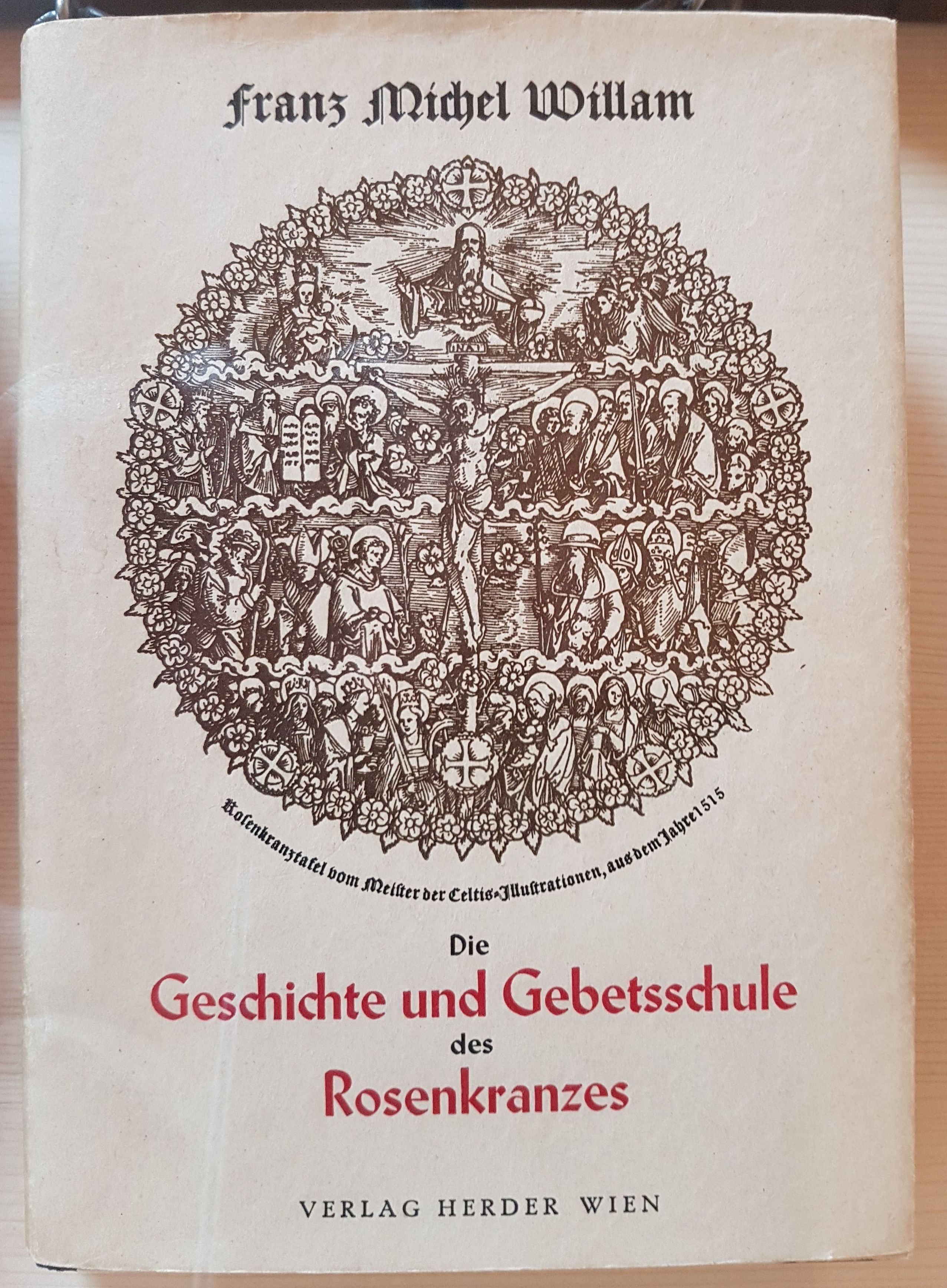 Franz Michel Willam (1894 - 1981), priest, theologian and author in Andelsbuch, Vorarlberg, Austria.